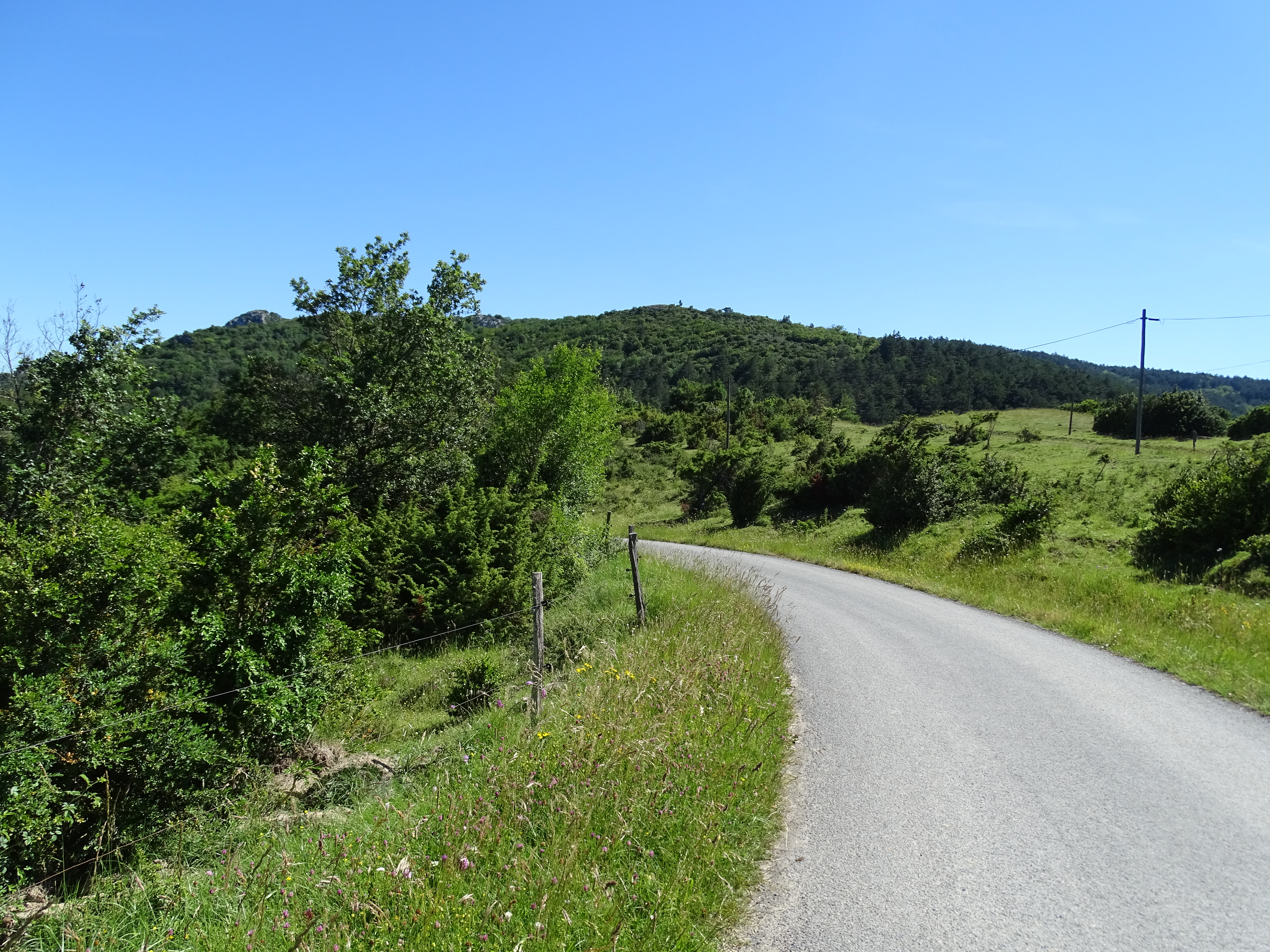 D212 at Col de la Redoulade, between Auriac and Soulatgé, Aude, France